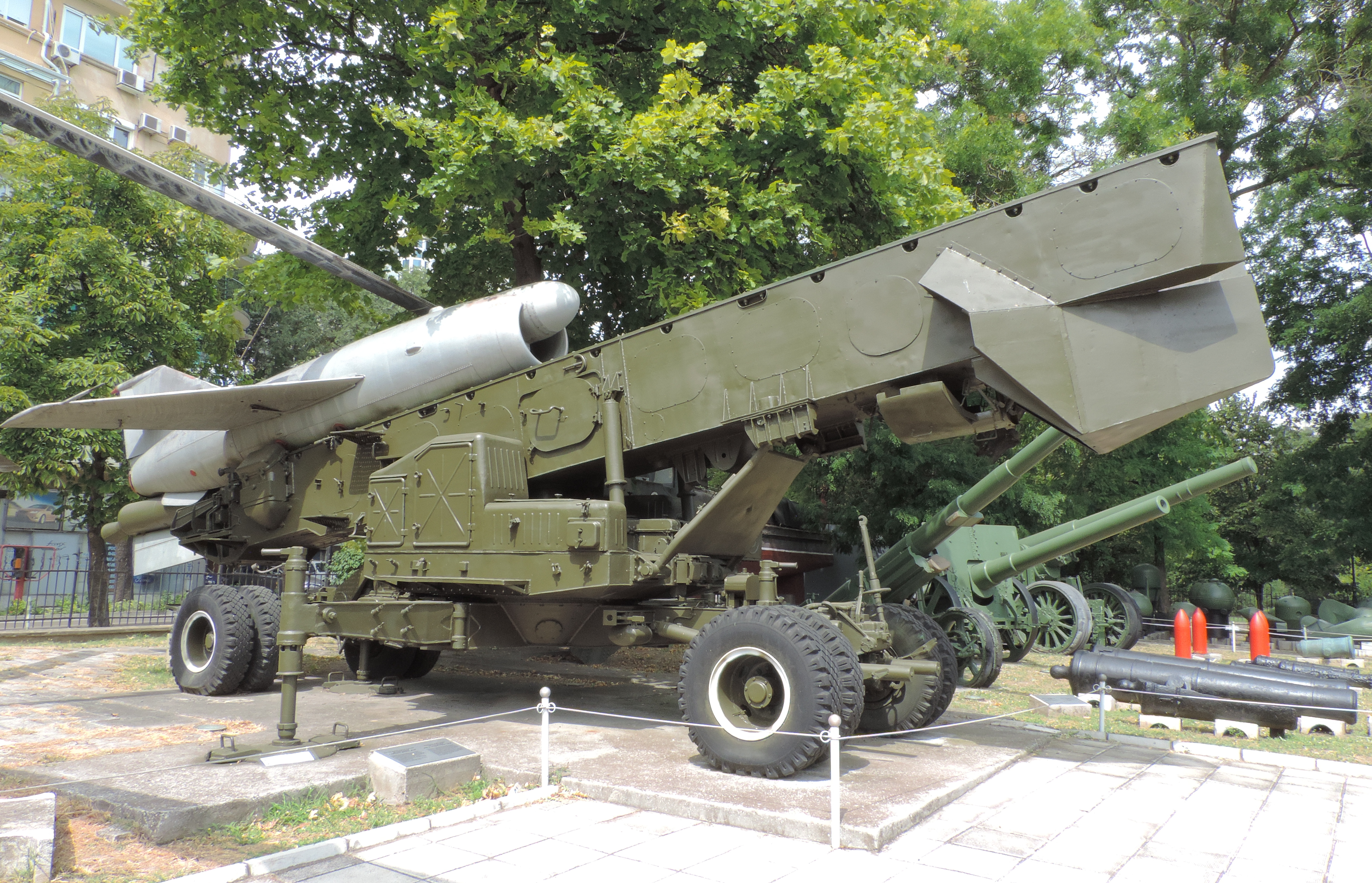 Naval Museum in Varna, Bulgaria